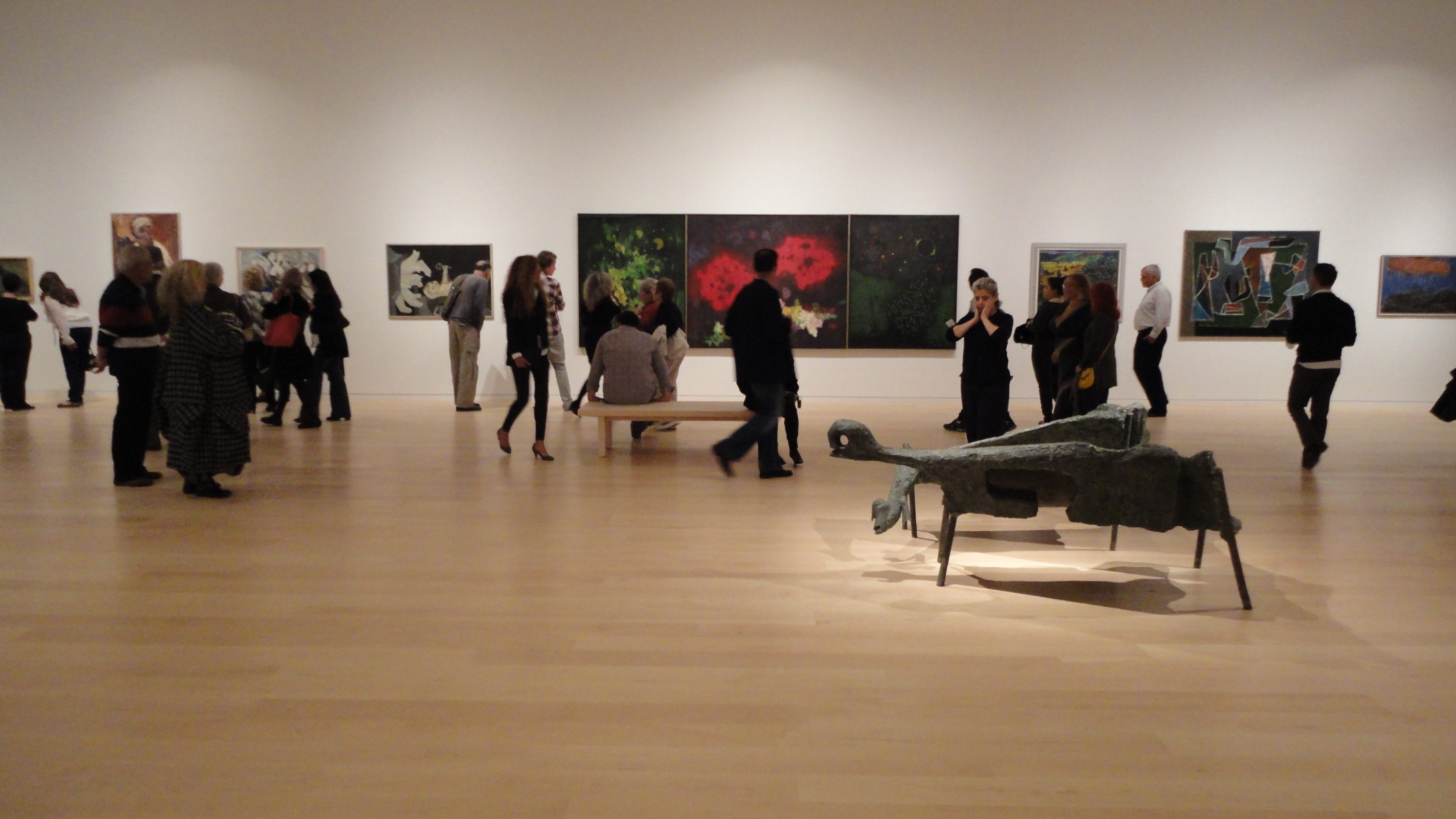 Opening of the Exibitioms at the Herta and Poul Amir Building, Tel Aviv Museum of Art, 1.11.2011.